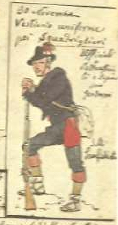 figure of Soldier of "squadriglieri" special troup against brigands of Pope army